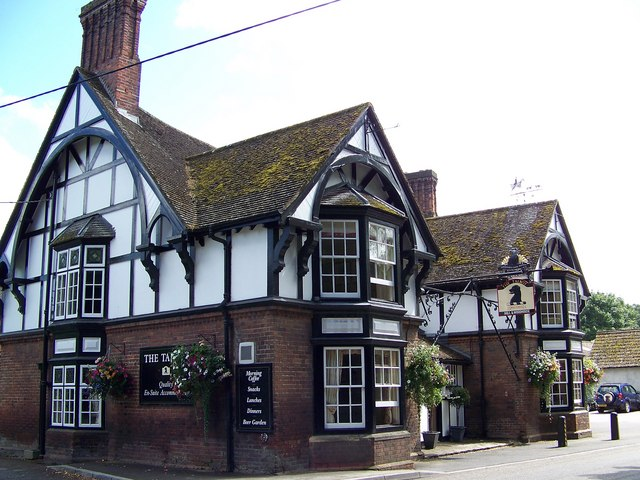 The Talbot Inn, Iwerne Minster The Talbot is easy to find in the middle of the pretty village and has recently been renovated and refurbished to a high standard.